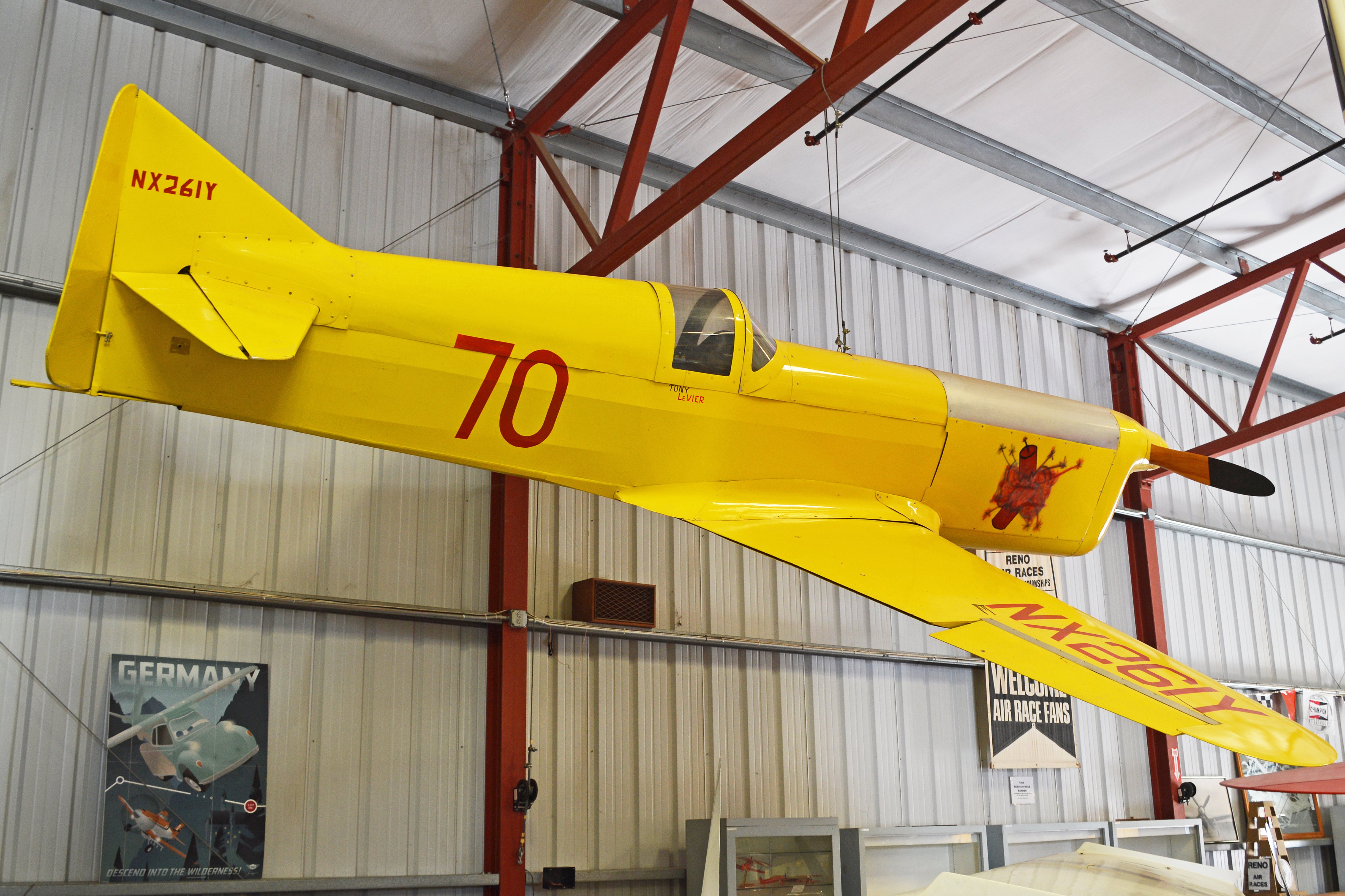 c/n 6. Built 1936 to compete in the National Air Races. This is the original aircraft and is on display in the ‘Jet & Air Racers’ hangar at the Planes of Fame Museum, Chino, California, USA. 28-2-2016